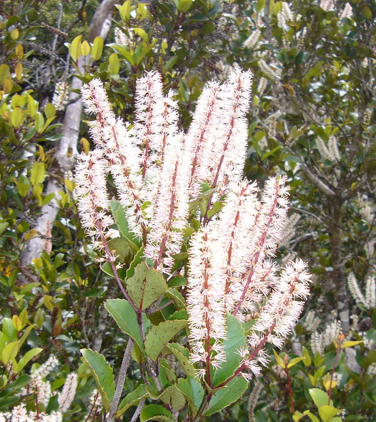 Weinmannia racemosa (kamahi) flowers photographed in December on the Milford Road.